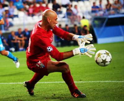 Wilfredo Caballero